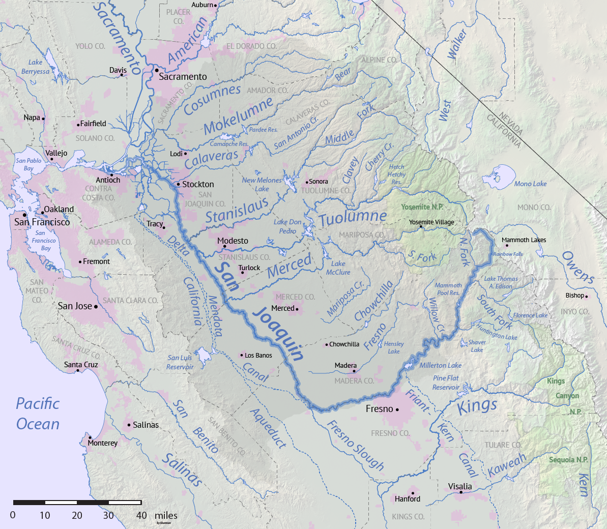 Map of the San Joaquin River basin in central California, United States, made using public domain USGS National Map data.